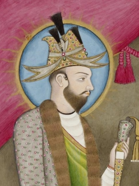 "Painting, in opaque watercolour on paper, depicting Ahmad Shah [Durrani], ruler of Afghanistan, upper body only, standing, facing right. He wears green and gold garments, with a grey, fur-trimmed jacket over the top, with an all over floral design, and an elaborate headdress. He holds a jewelled dagger in his left hand."